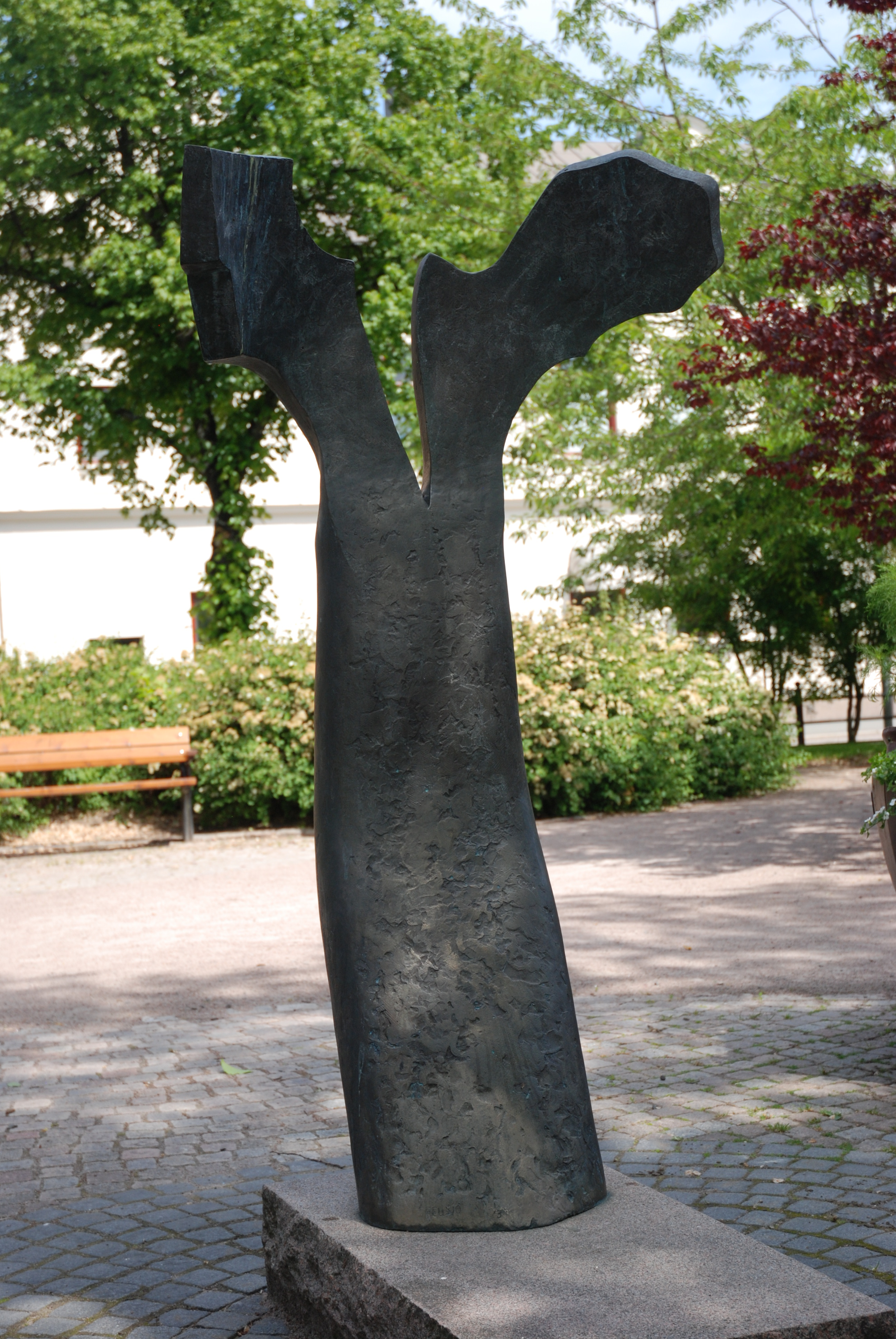 Owe Pellsjö´s sculpture Nike, a memorial to Olof Palme, Västra Torget, Jönköping, Sweden